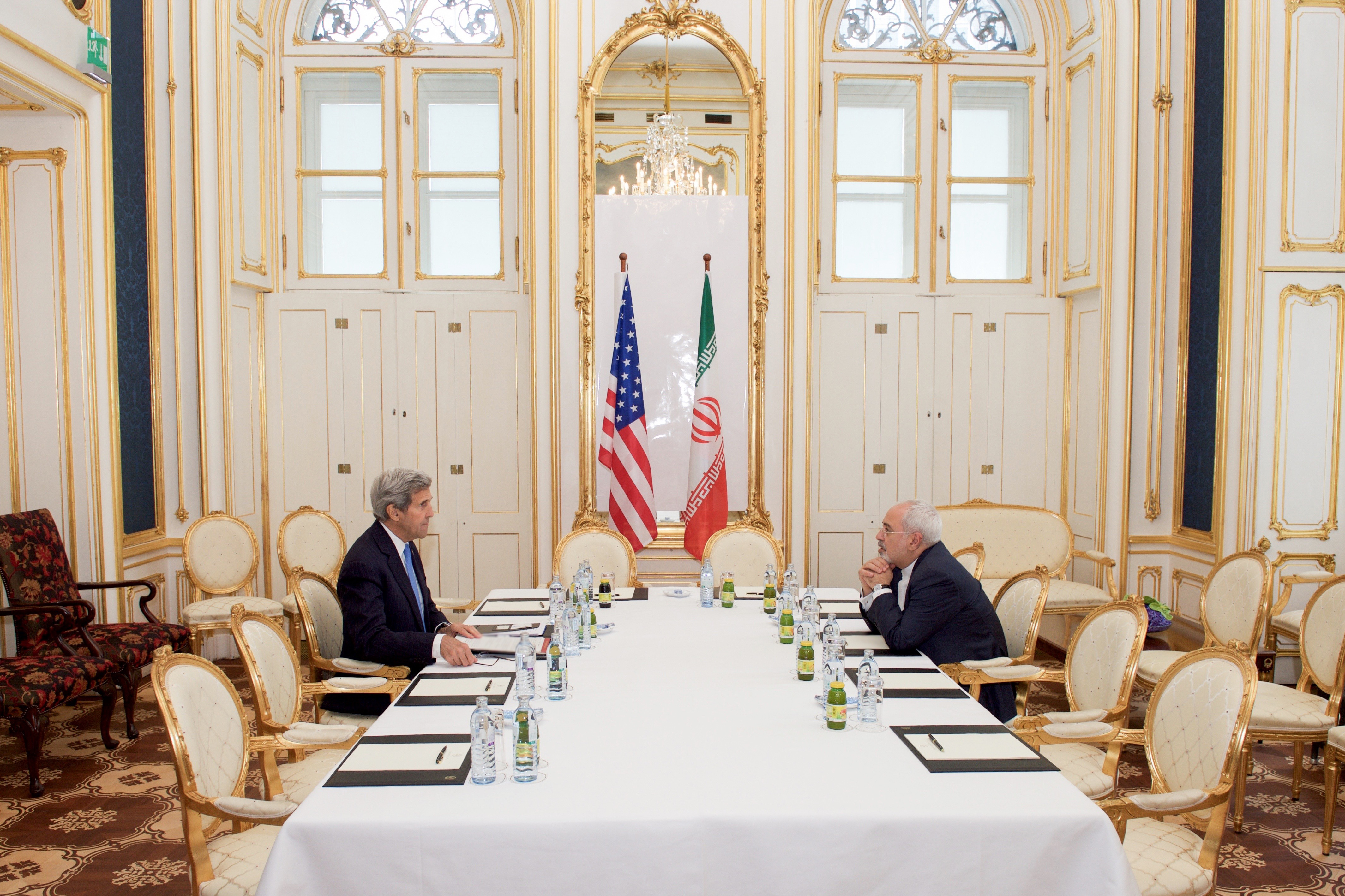 The negotiations involved dozens of people, but on occasion, as seen in the Palais Coburg Blue Salon on July 1, 2015, the negotiations came down to two figures: Secretary Kerry and Iranian Foreign Minister Zarif. [State Department photo/ Public Domain]